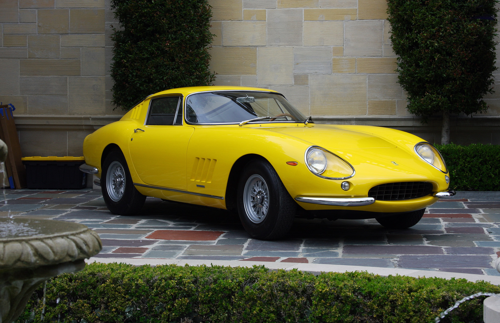 2013 Greystone Mansion Concours d'Elegance, Beverly Hills, CA